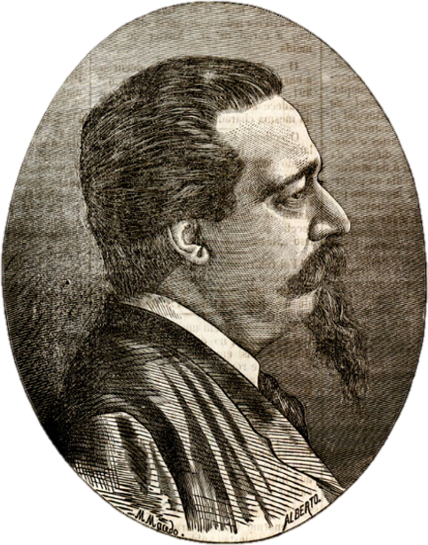 Carlos Ramiro Coutinho (1828-1897), 3rd Baron of Barcelinhos and 1st and only Viscount of Ouguela.